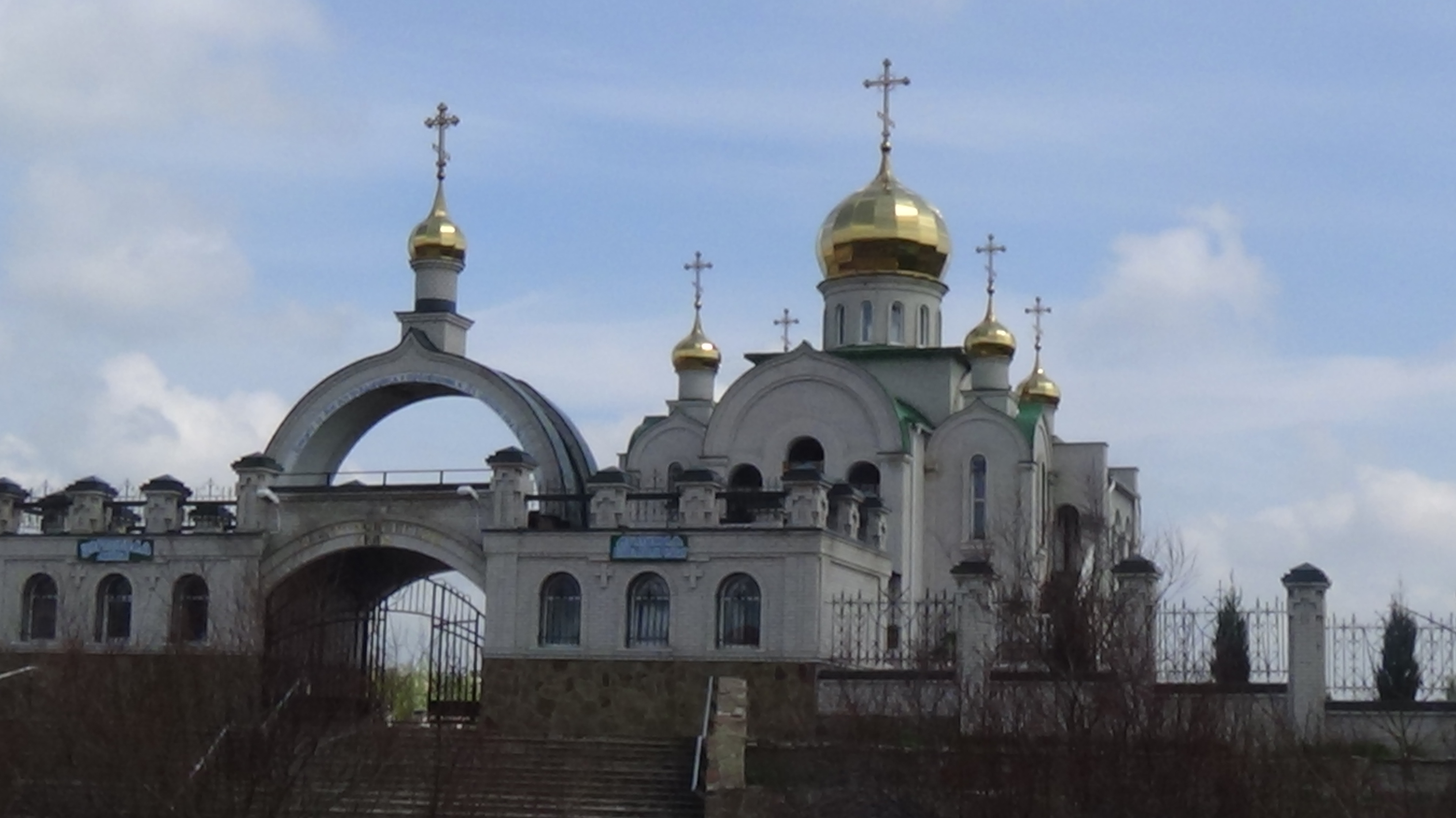 Ukrainian Orthodox Church "Holy Assumption church."